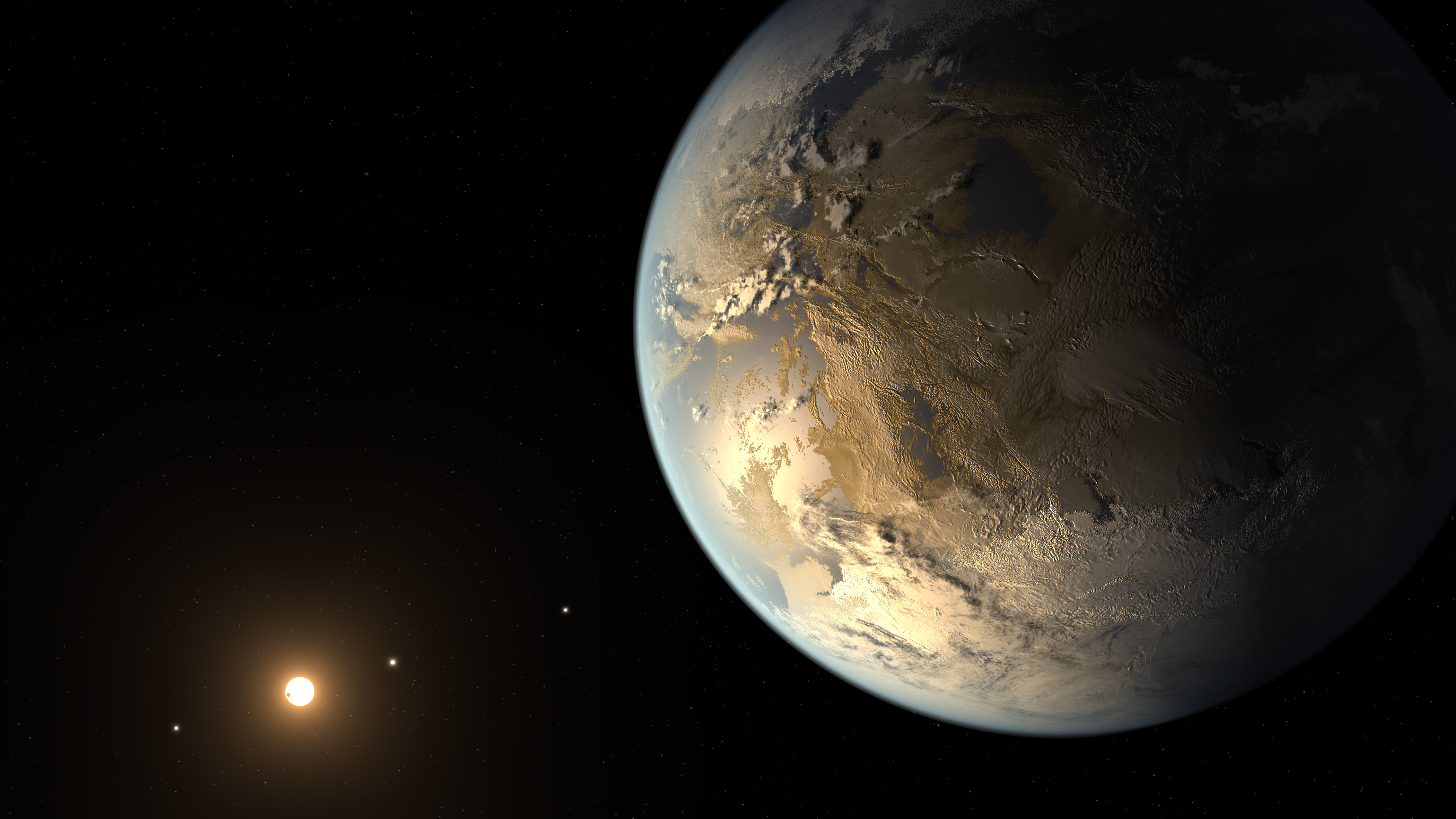 NASA's Kepler Discovers First Earth-Size Planet In The 'Habitable Zone' of Another Star April 17, 2014 For more information about the Kepler mission, visit